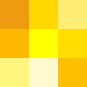 Edited version of Image:Color_icon_blue.svg.